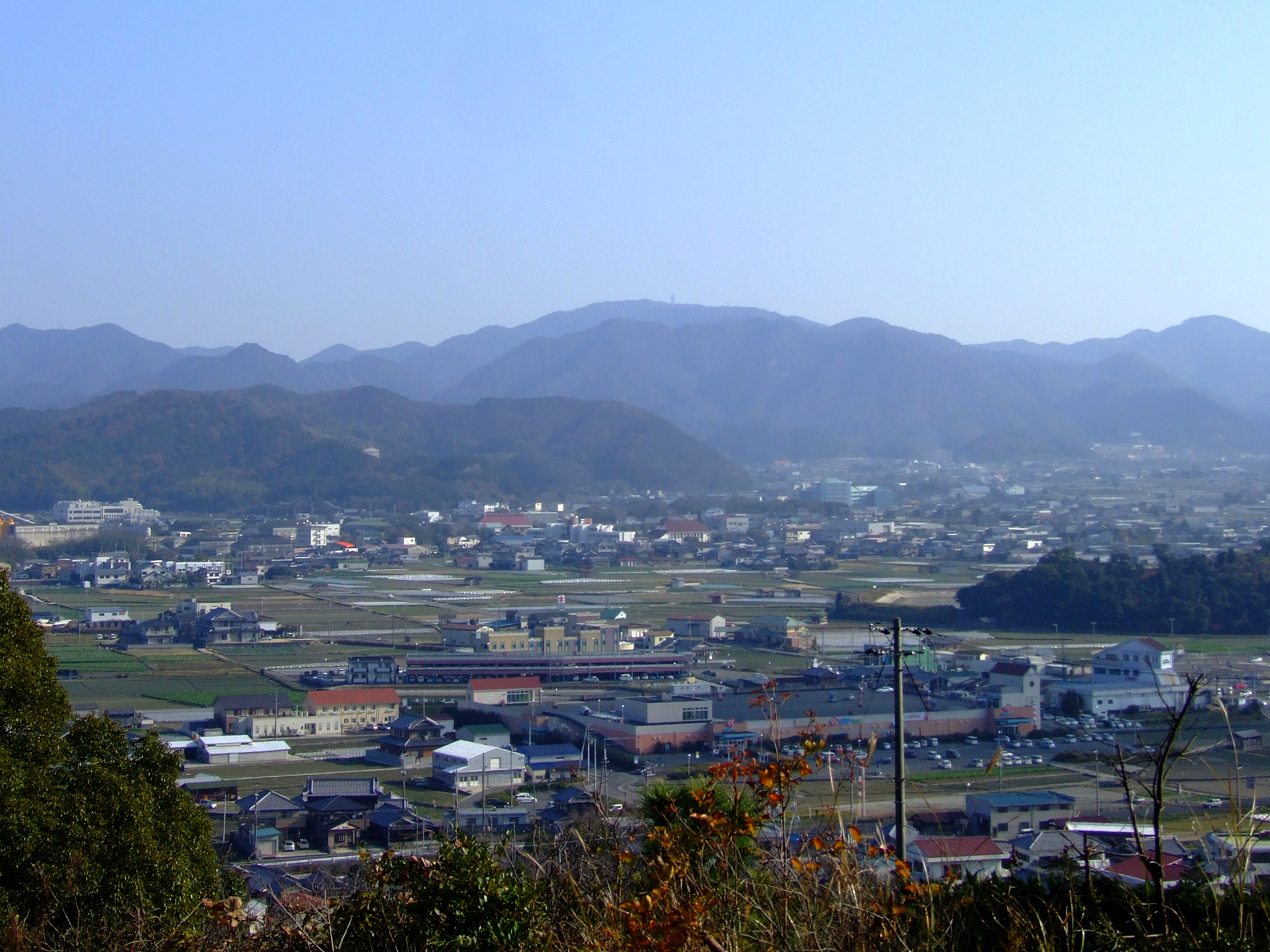 Mount Yuzuruha on the Awaji Island in Hyogo Prefecture, Japan